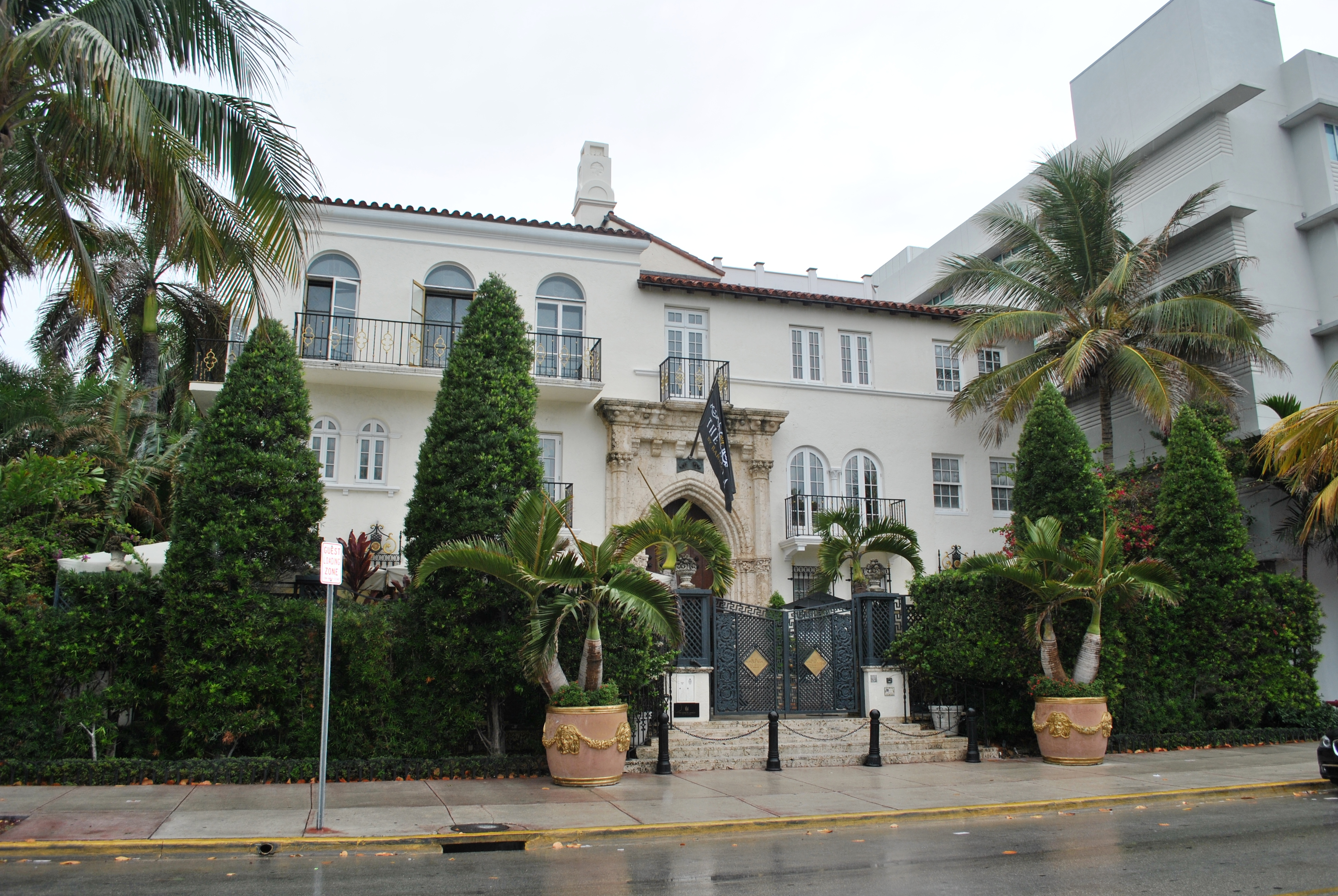 Image originally published in Queer Places: Retracing the Steps of LGBTQ people around the World Authored by Elisa Rolle